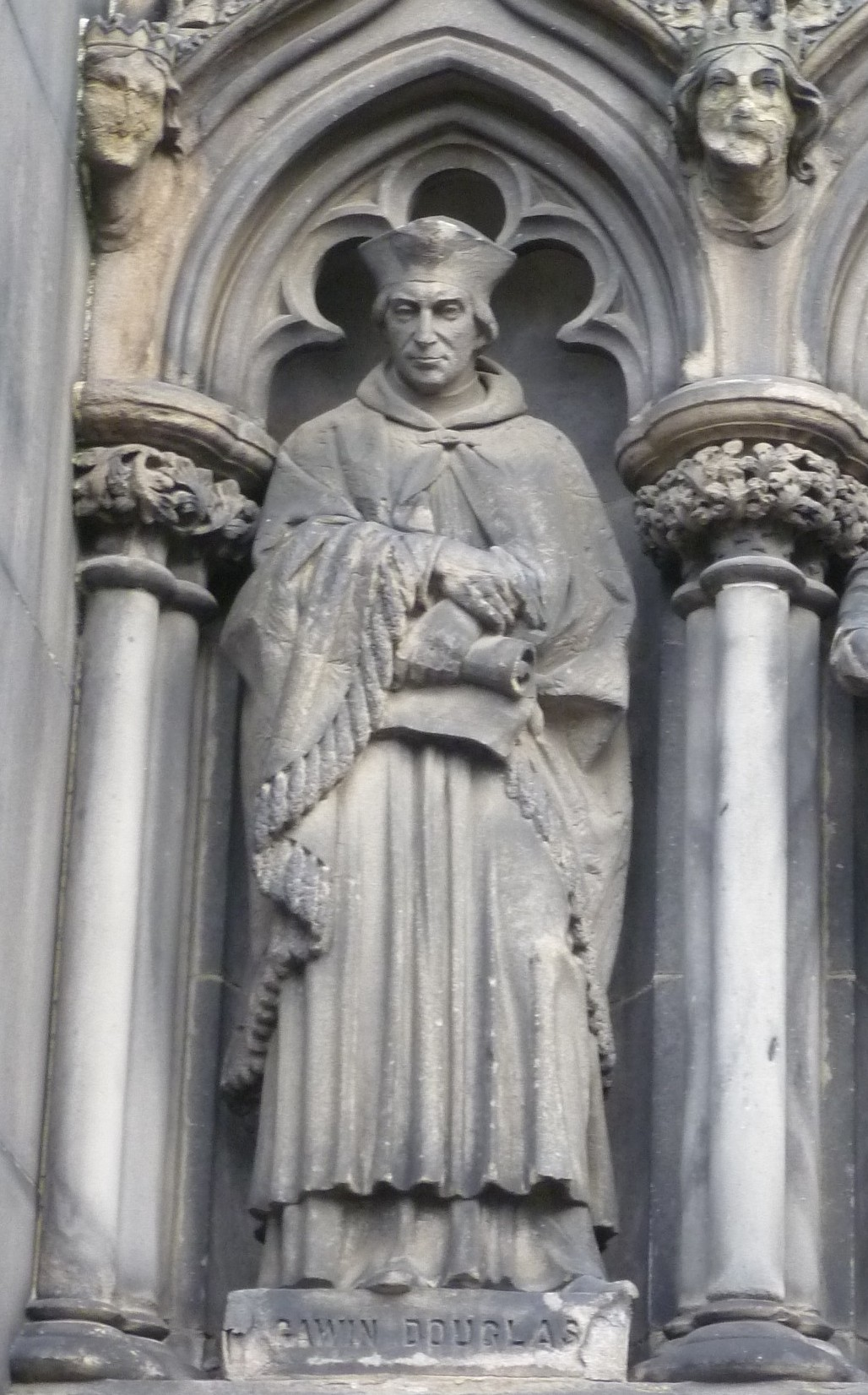 Statue of Gavin Douglas, Bishop of Dunkeld, on the West Door of St. Giles Cathedral, Edinburgh